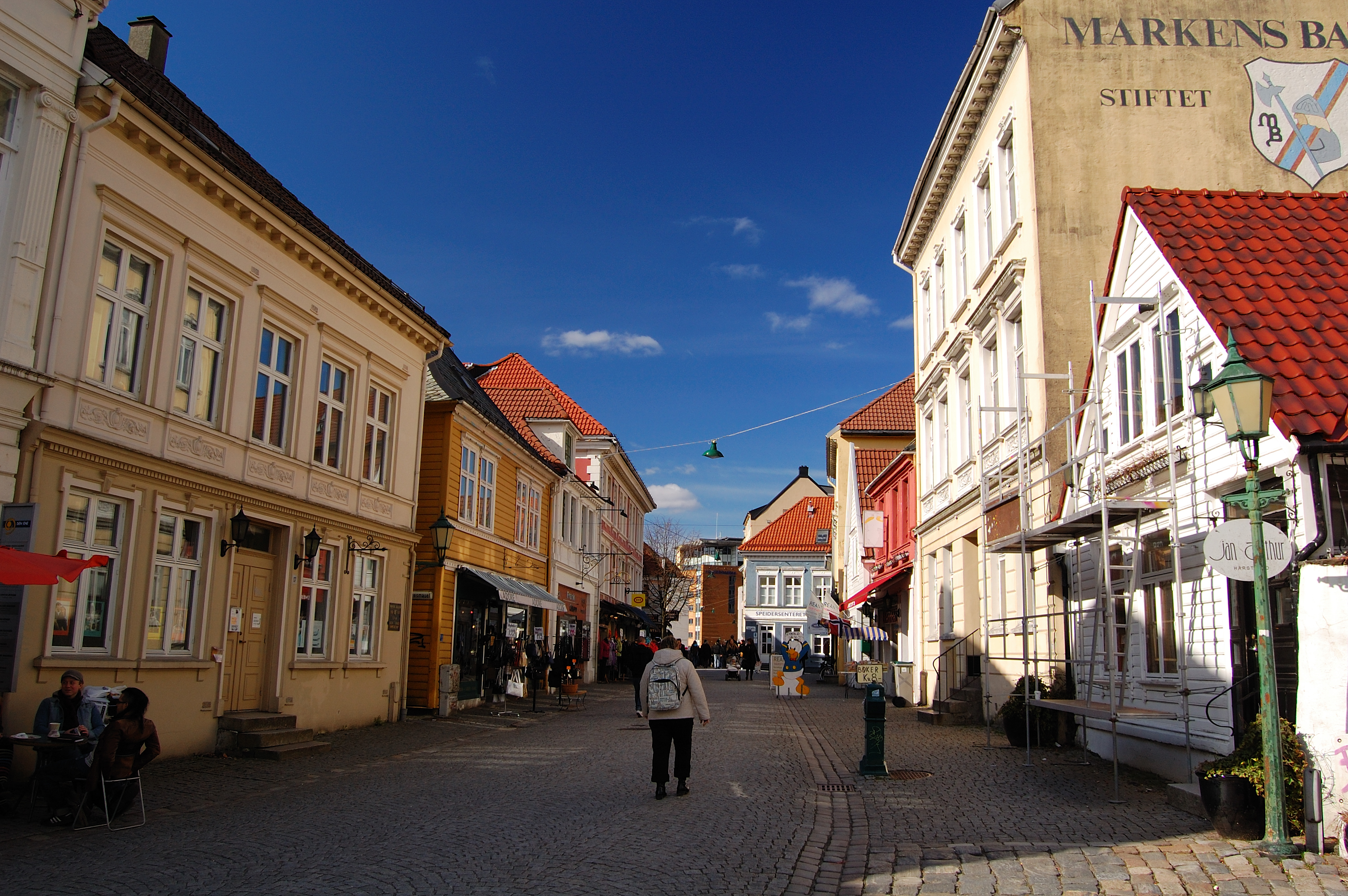 Marken street in Bergen, Norway.